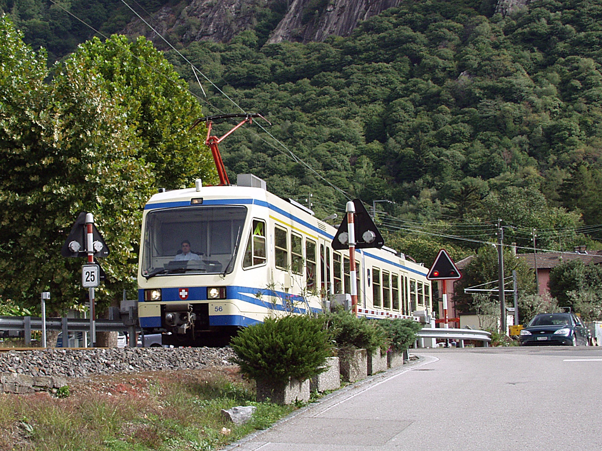 Multiple unit of the Centovalli Railway in Ponte Brolla